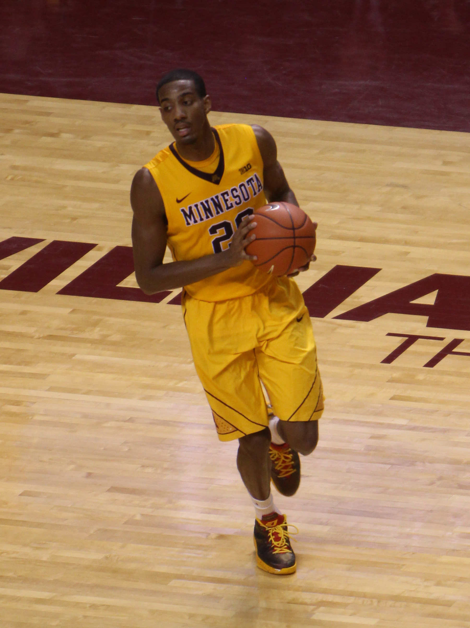 Austin Hollins of the [:w:2013–14 Minnesota Golden Gophers men's basketball team